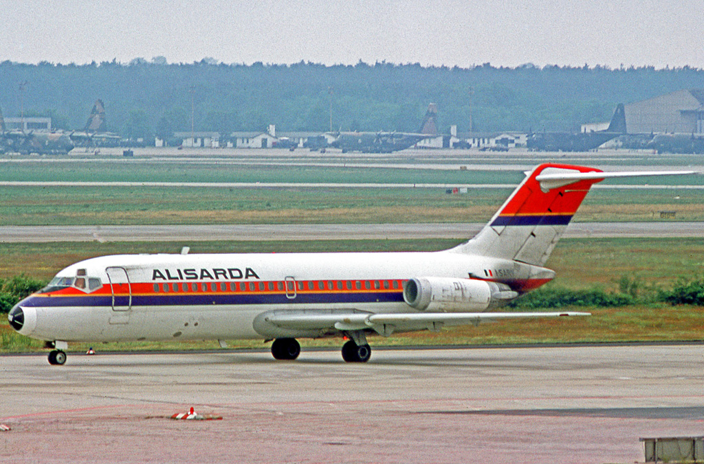 Douglas DC-9-14 I-SARV of Alisarda at Frankfurt Airport in 1977